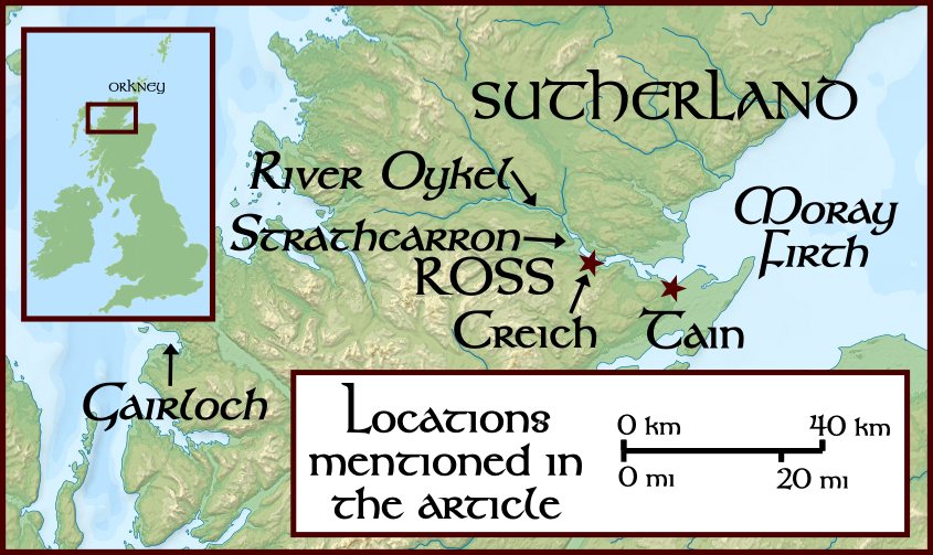 Map showing some of the locations mentioned in the article concerning Paul Mactire.